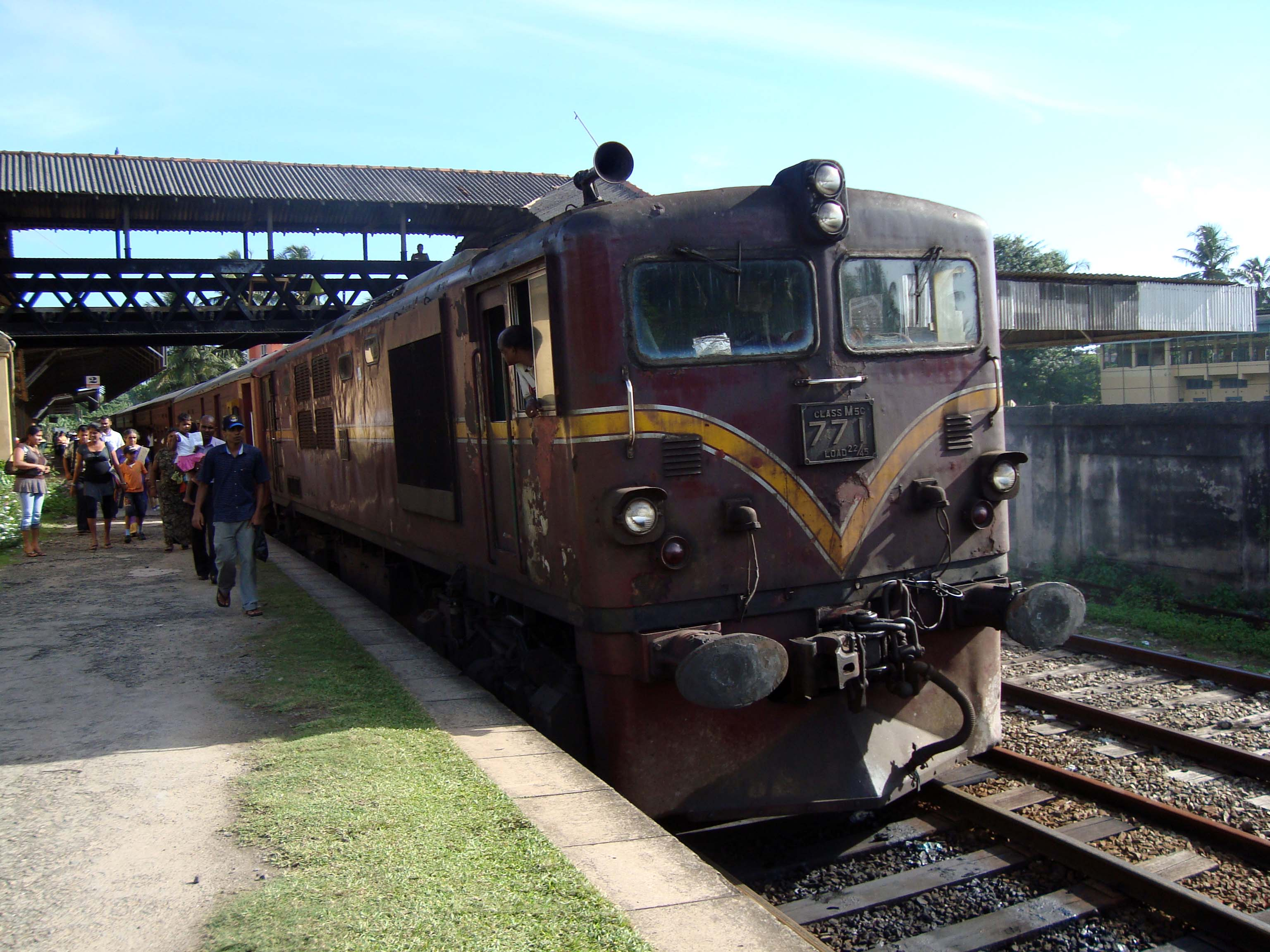 Re-powered Hitachi M5c locomotive hauling the Matara-Kandy Express train.